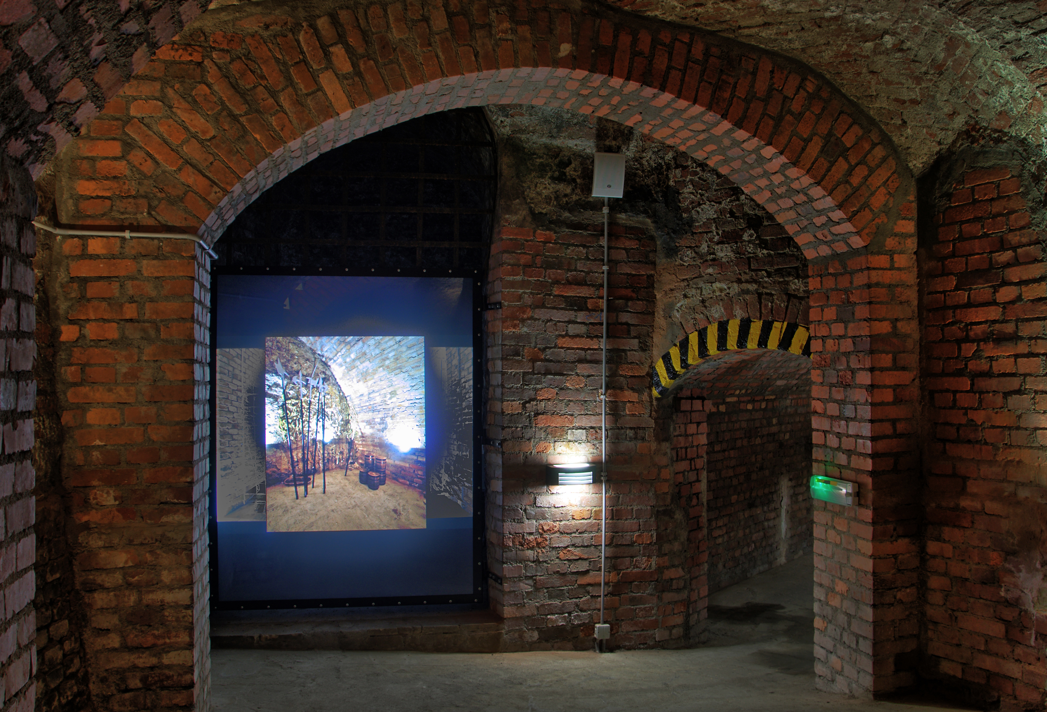 City tunnels route. Copyright to the picture visible on the projector screen is also held by Jacek Halicki.